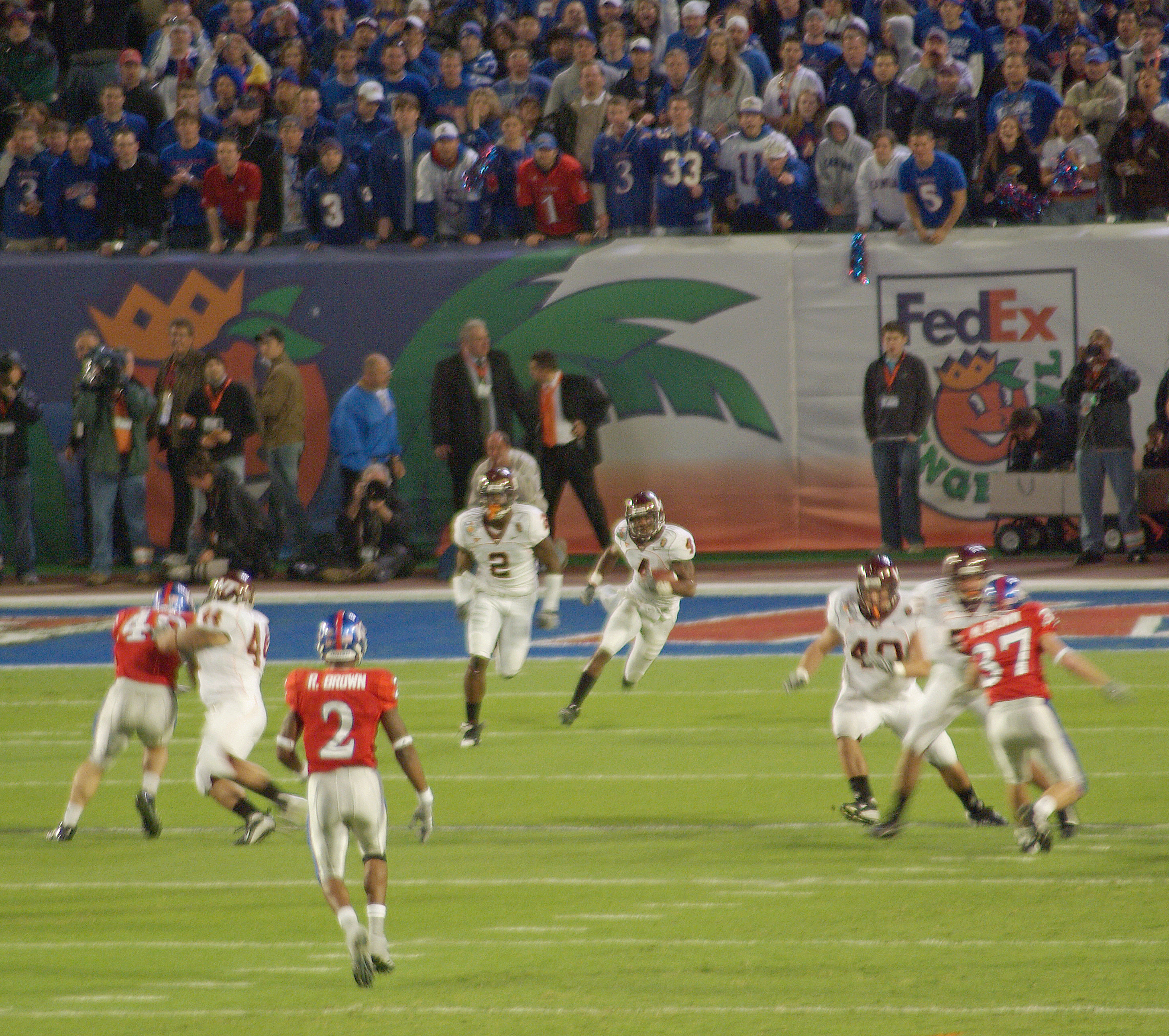 Virginia Tech's Eddie Royal returns a kick during the 2008 Orange Bowl.